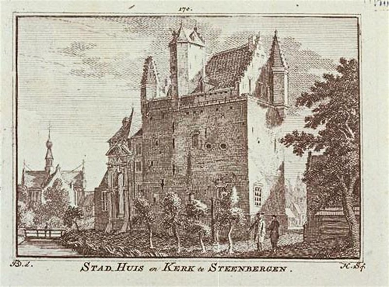 City hall and church from Steenbergen